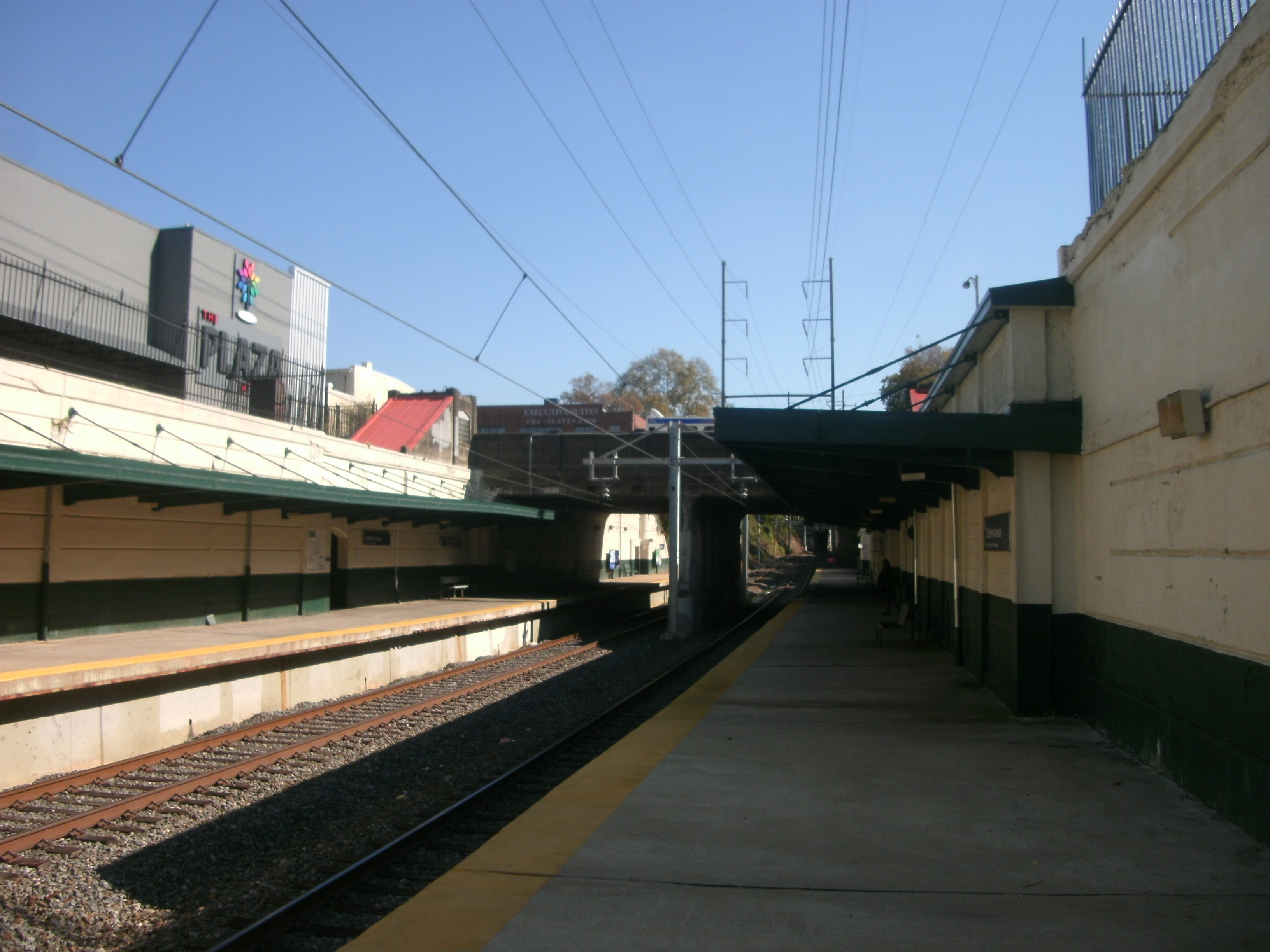 The Chelten Avenue SEPTA Regional Rail station on the Chestnut Hill West Line in Philadelphia, Pennsylvania.